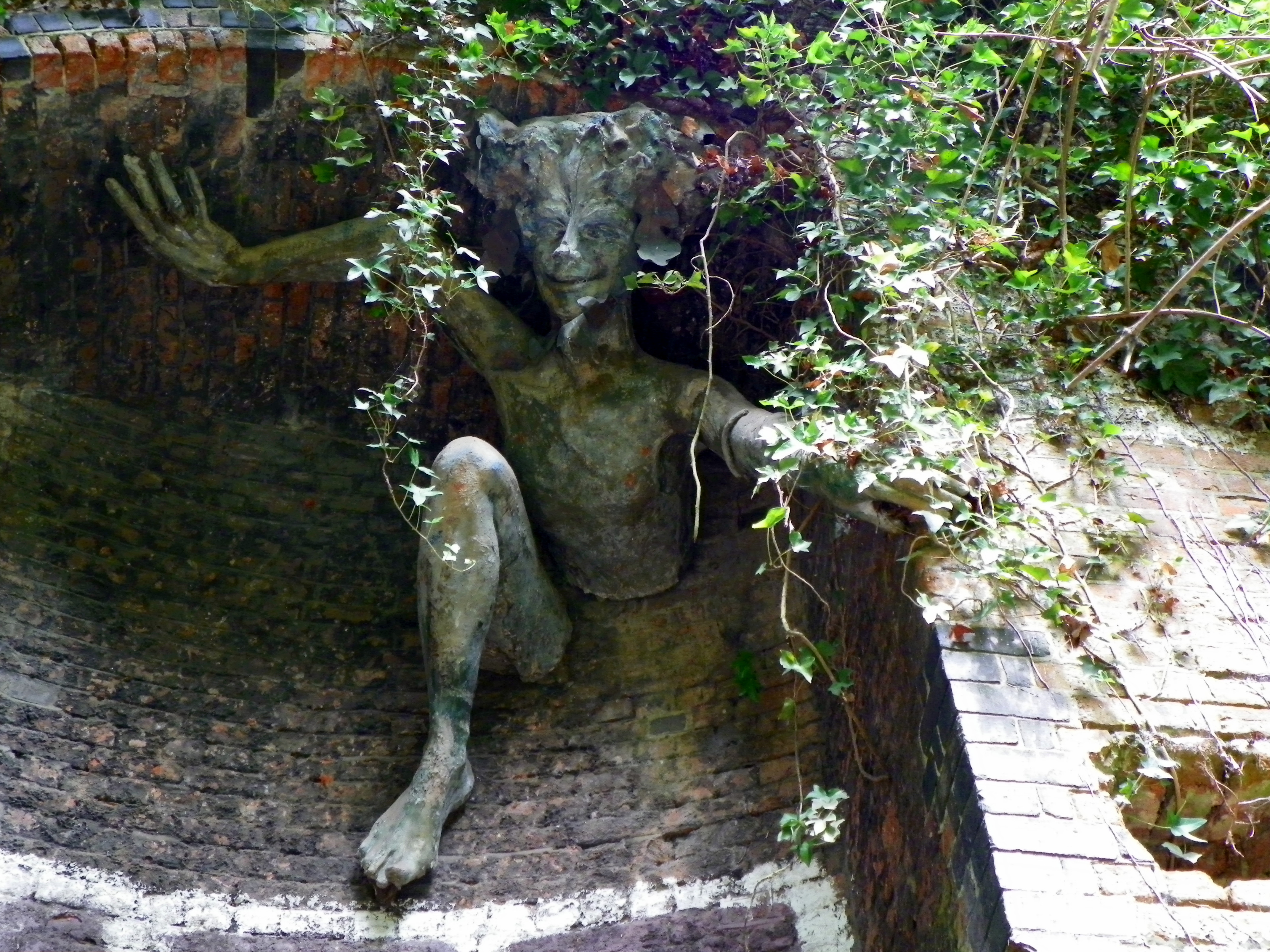 Green spriggan sculpture by Marilyn Collins, in an alcove of the wall at the footbridge before the former Crouch End station. According to a local urban legend, a ghostly 'goat-man' haunted the walk in the 1970s and 1980s. The sculpture, and Parkland Walk generally, provided the inspiration for Stephen King's short story "Crouch End".